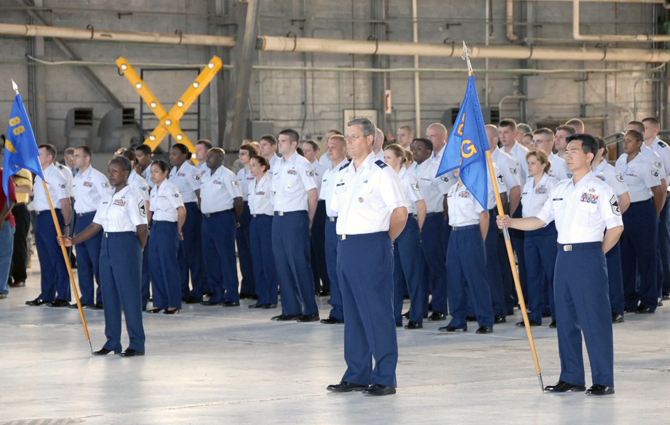 A formation of 88th Air Base Wing Airmen stand at parade rest during the wing change of command ceremony July 14 at Wright-Patterson Air Force Base, Ohio. Col. Bradley D. Spacy, succeeded Col. Colleen Ryan at the ceremony, held in a World War Two-era hangar overlooking the flightline in Area C.